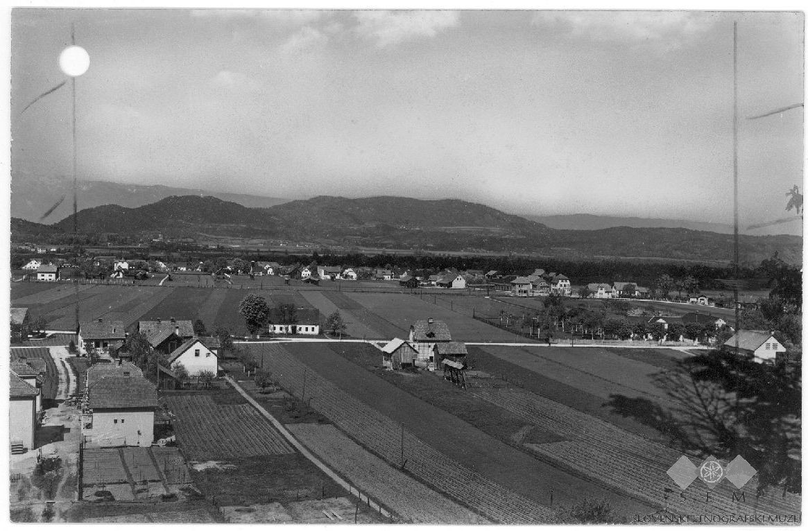 Postcard of Ljubljana, Vižmarje